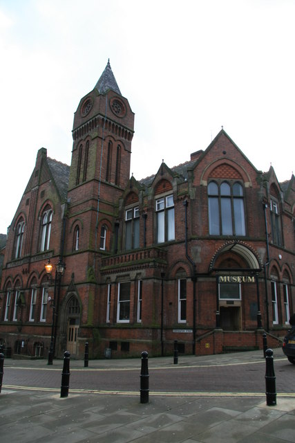 Stephenson Memorial Hall now Chesterfild Museum